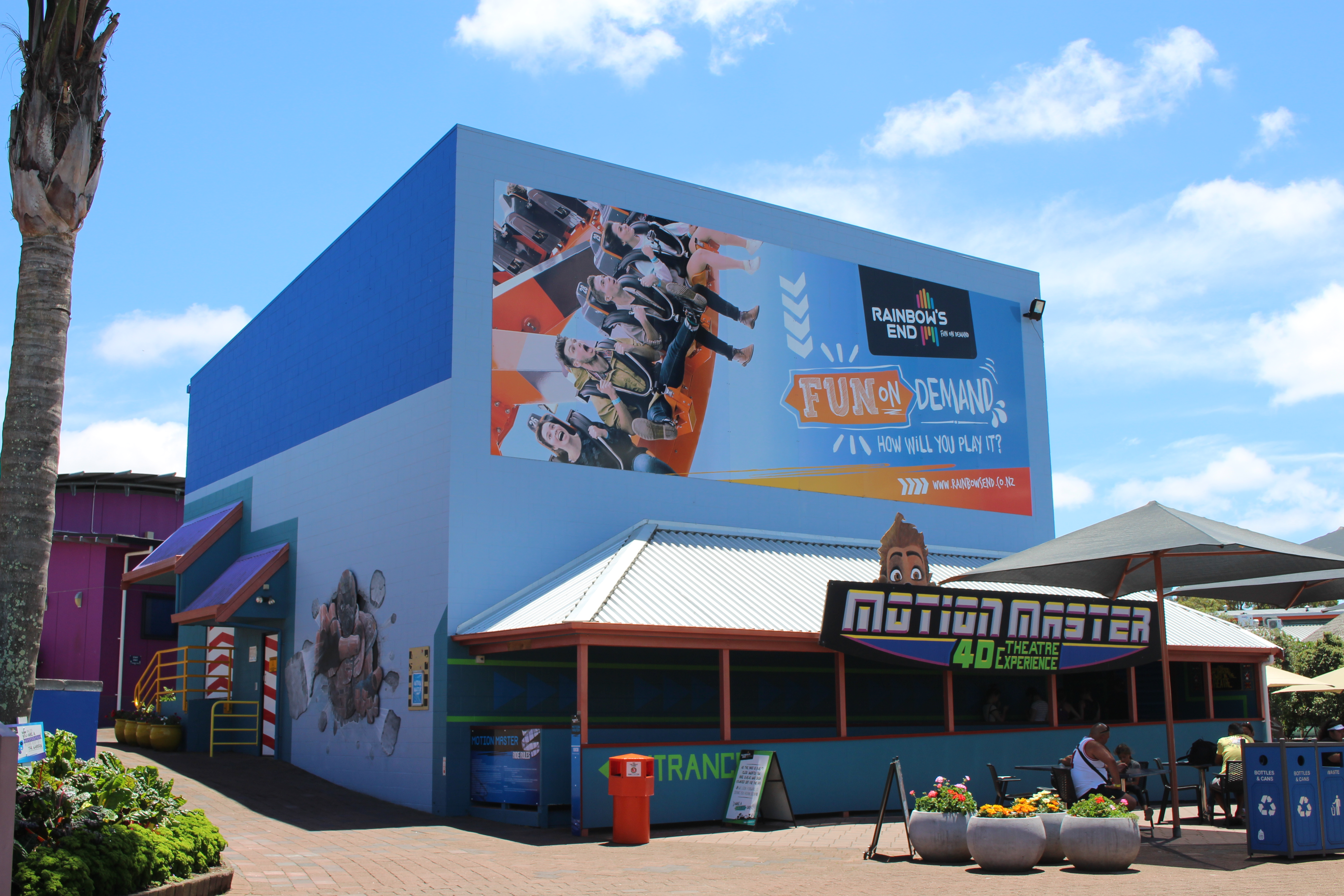 Rainbow's End Motion Master